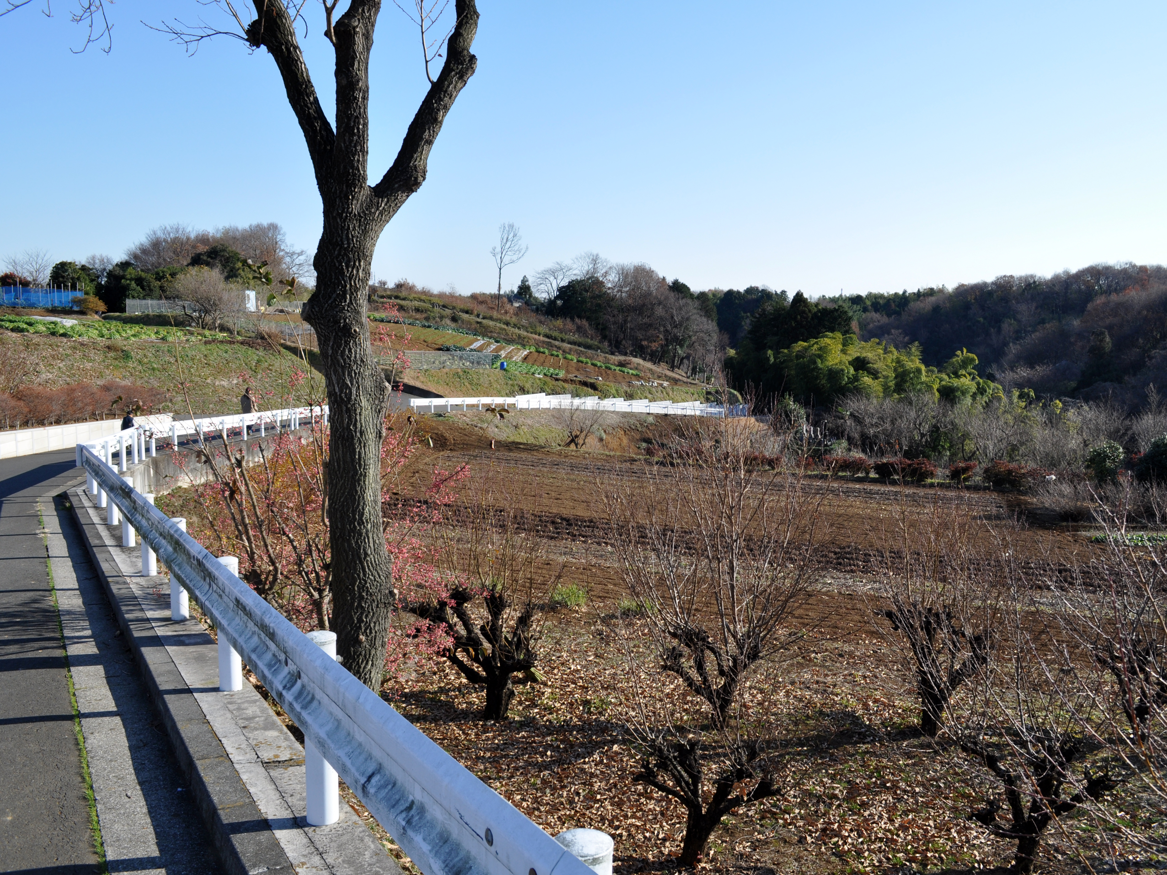 View of Motoishikawachou in Aoba-ku Yokohama town in Aoba-ku, Yokohama, Japan.